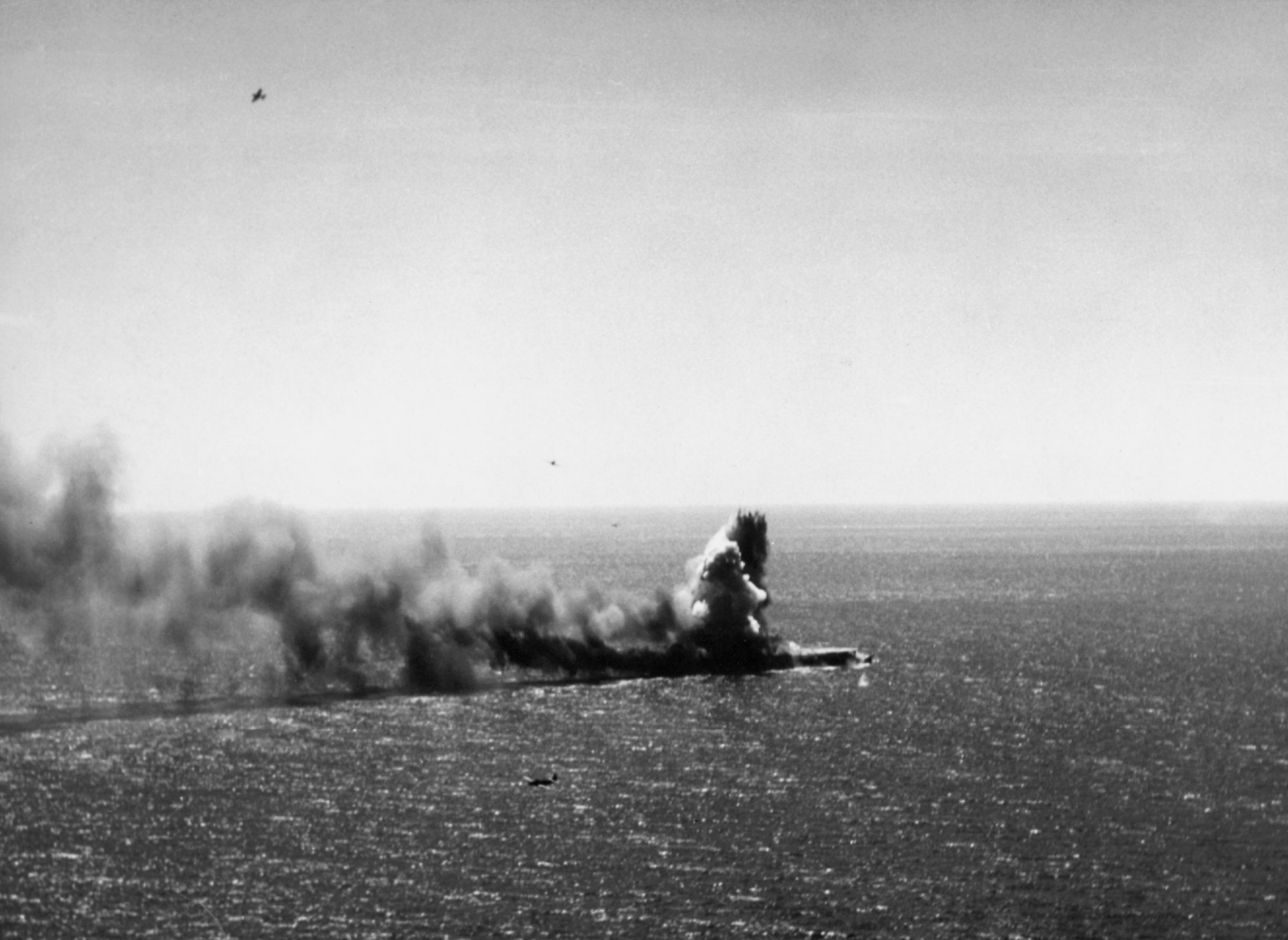 The Japanese light carrier Shoho under attack by U.S. Navy planes on 7 May 1942 during the Battle of the Coral Sea. Note the Douglas TBD Devastator in lower center/left and two or three other U.S. Navy aircraft visible above the burning carrier.